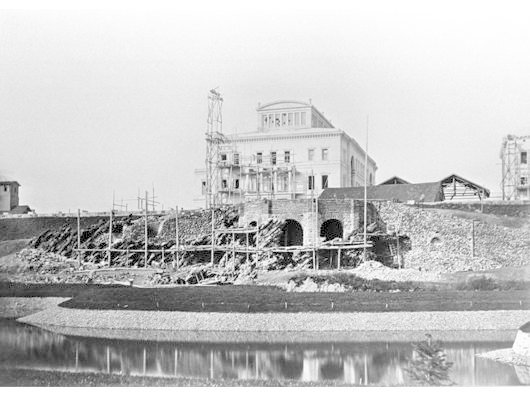 Construction of Villa Hügel